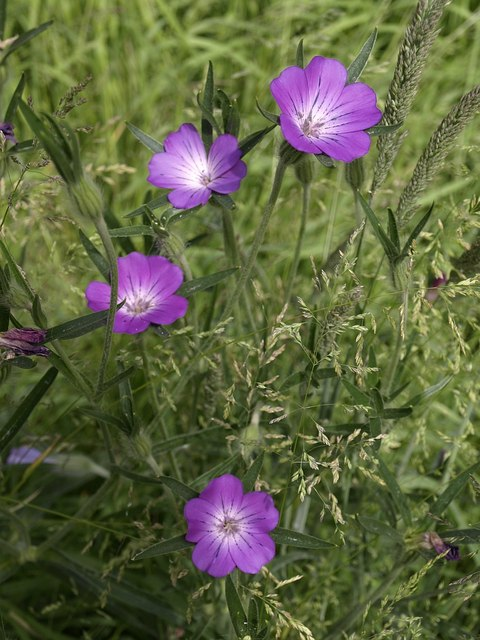 Corn Cockle, Torre churchyard A wildflower meadow has been planted in the western part of the churchyard, and former weeds of arable land are prominent - this is Corn cockle, Agrostemma githago, now rather unusual in the wild. As it is poisonous, it is perhaps as well that wheat seed no longer routinely contains corn cockle seed, which was "very likely ... until the 20th century".